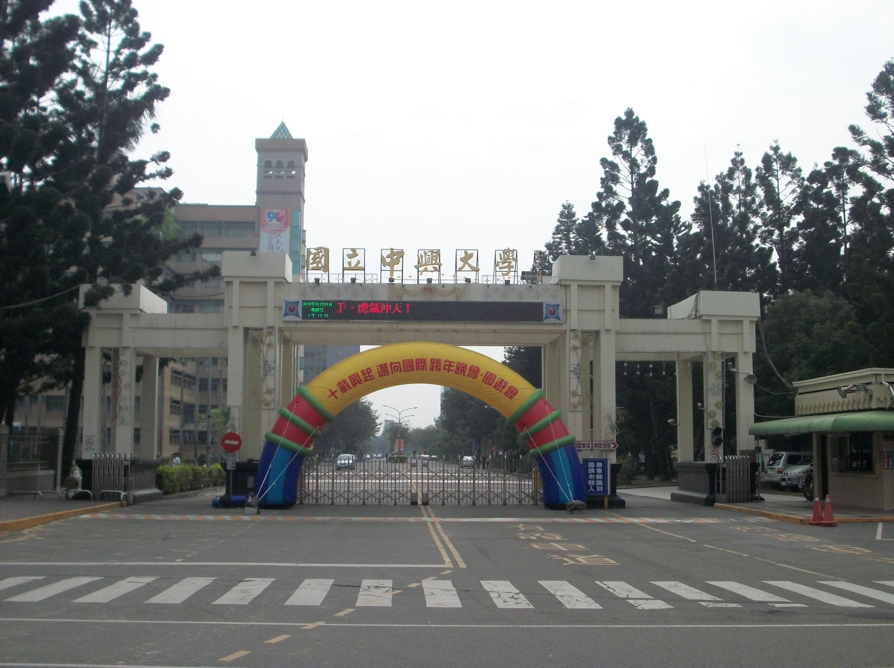 The main gate of Chung-Hsing University at the intersection of Sinda Rd. and Suefu Rd. in Taichung City.